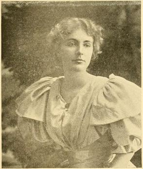 Mrs Henry C. Hansbrough